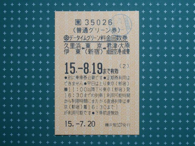 Daytime Repeat Ticket for Green Car at 2003